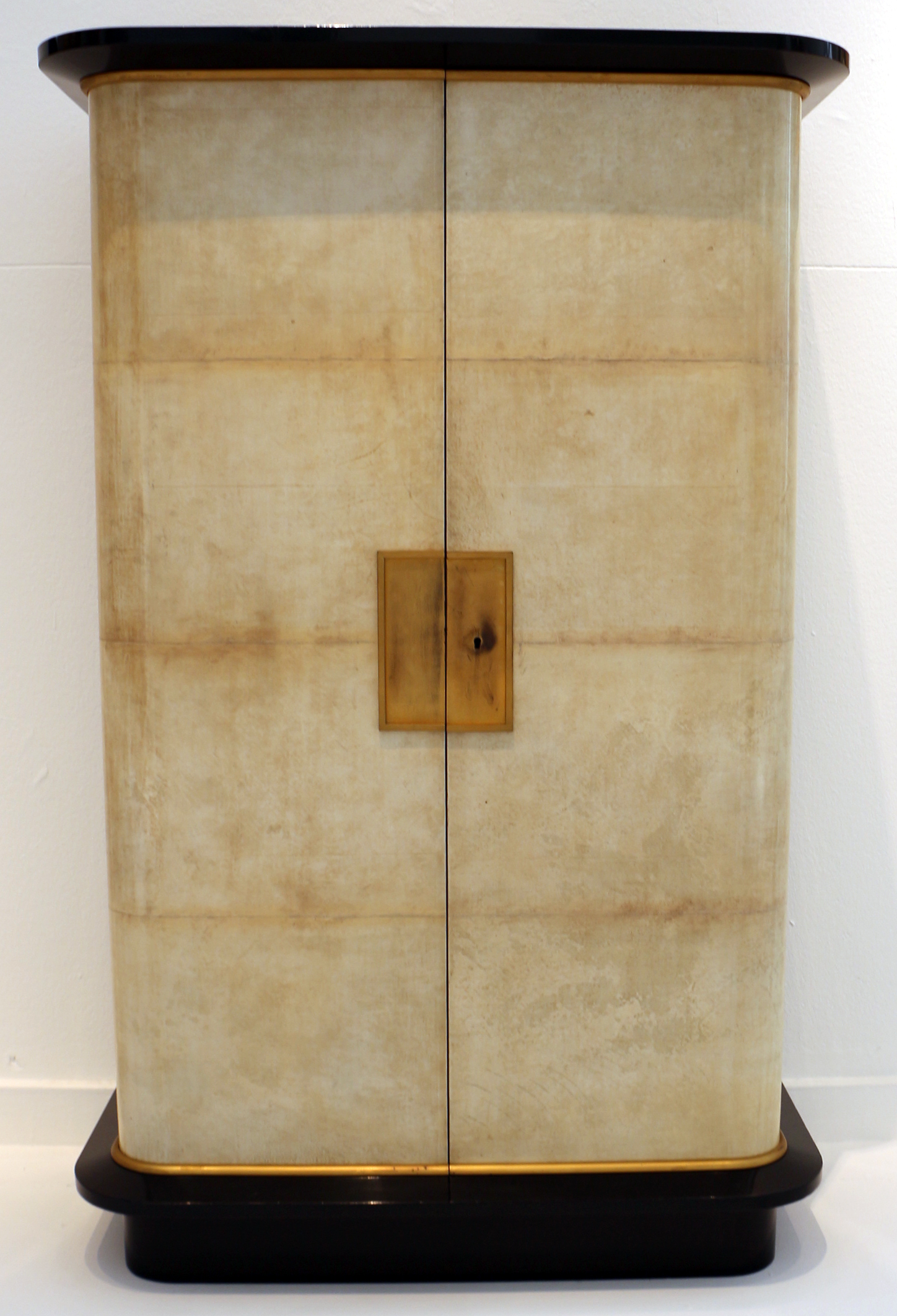 Collections of the Musée d'Art Moderne de la Ville de Paris